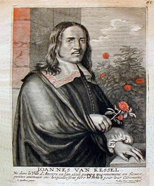 Flemish flower painter Jan Van Kessel in the book Het Gulden Cabinet, by Cornelis de Bie.